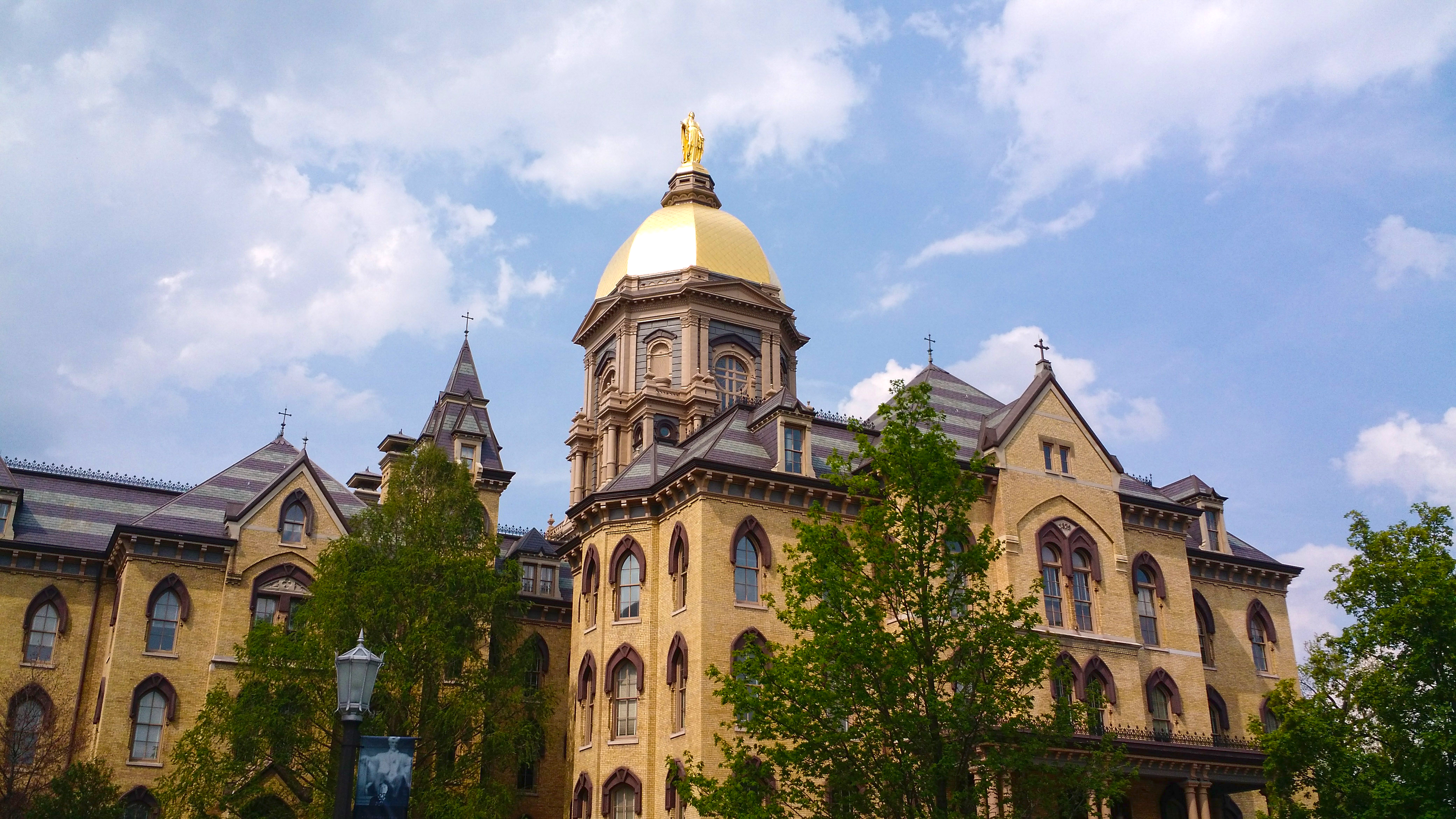 The Main Building, Golden Dome, at the University of Notre Dame in Notre Dame, Indiana.